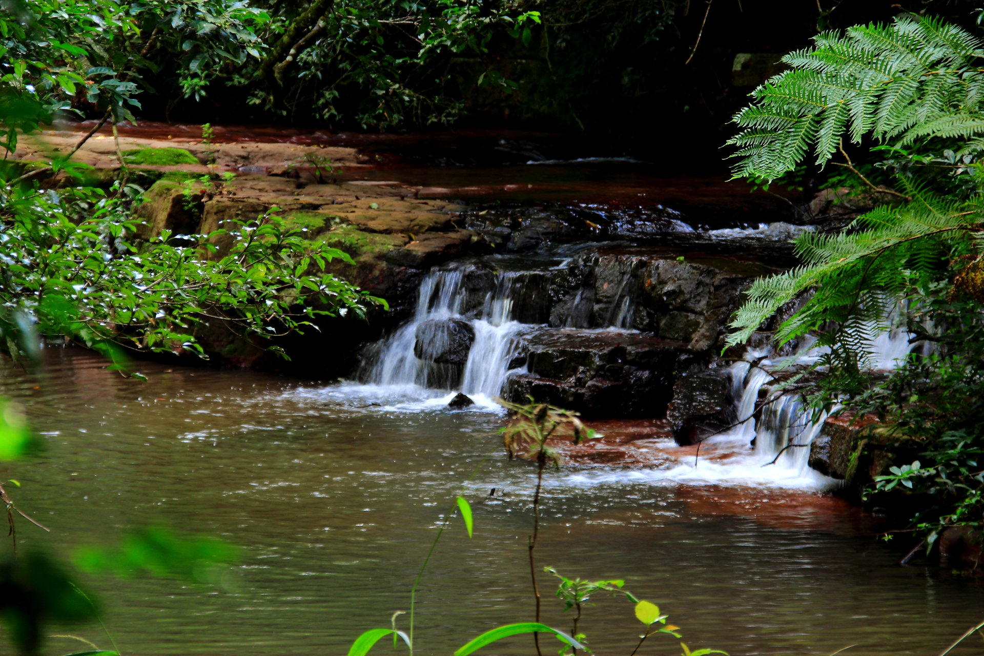 A small cascade in the nKonka river (a tributary of the Molweni) which can be reached along the white trail in Krantzkloof Nature Reserve, KwaZulu-Natal, South Africa